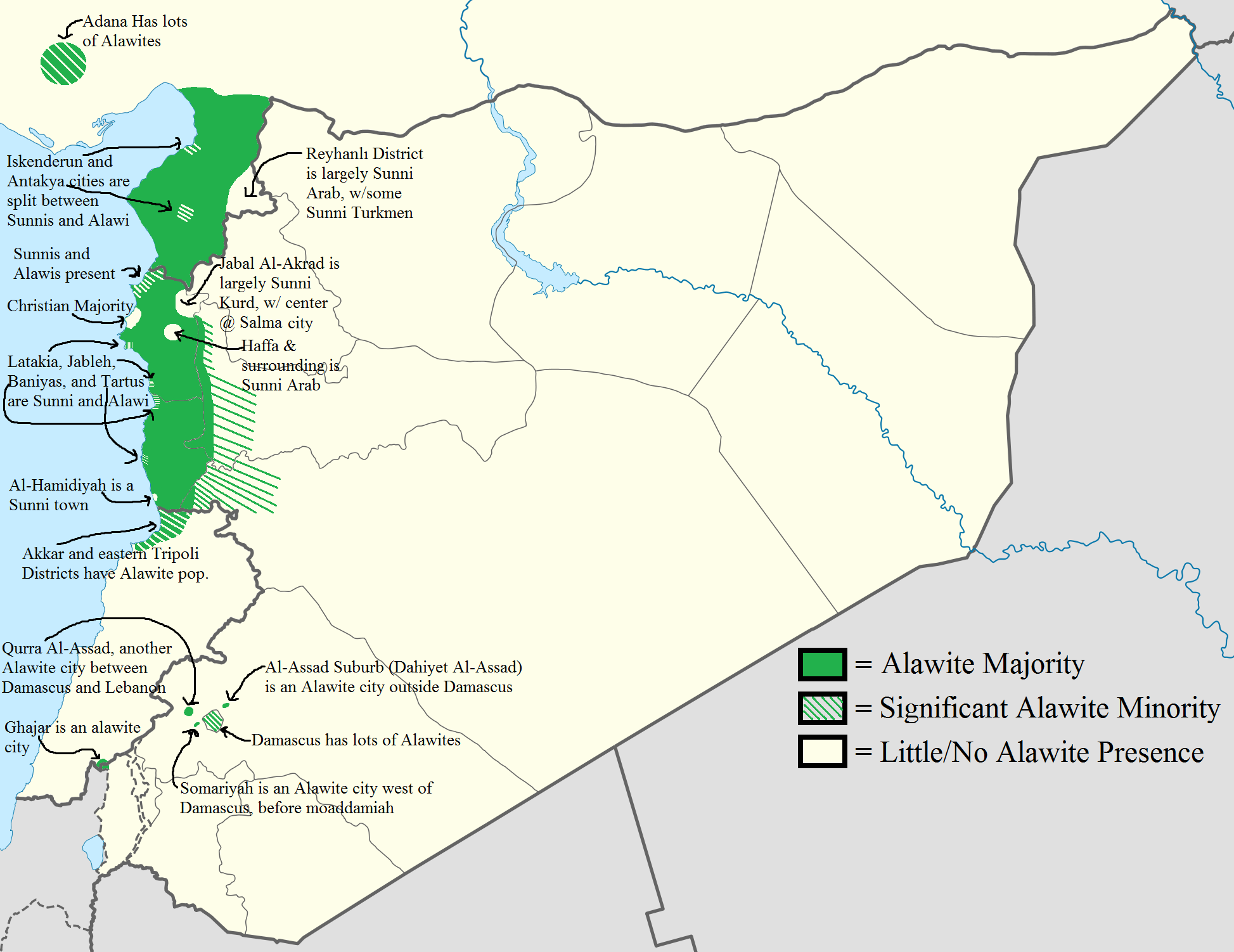 Map that explains previous map I uploaded